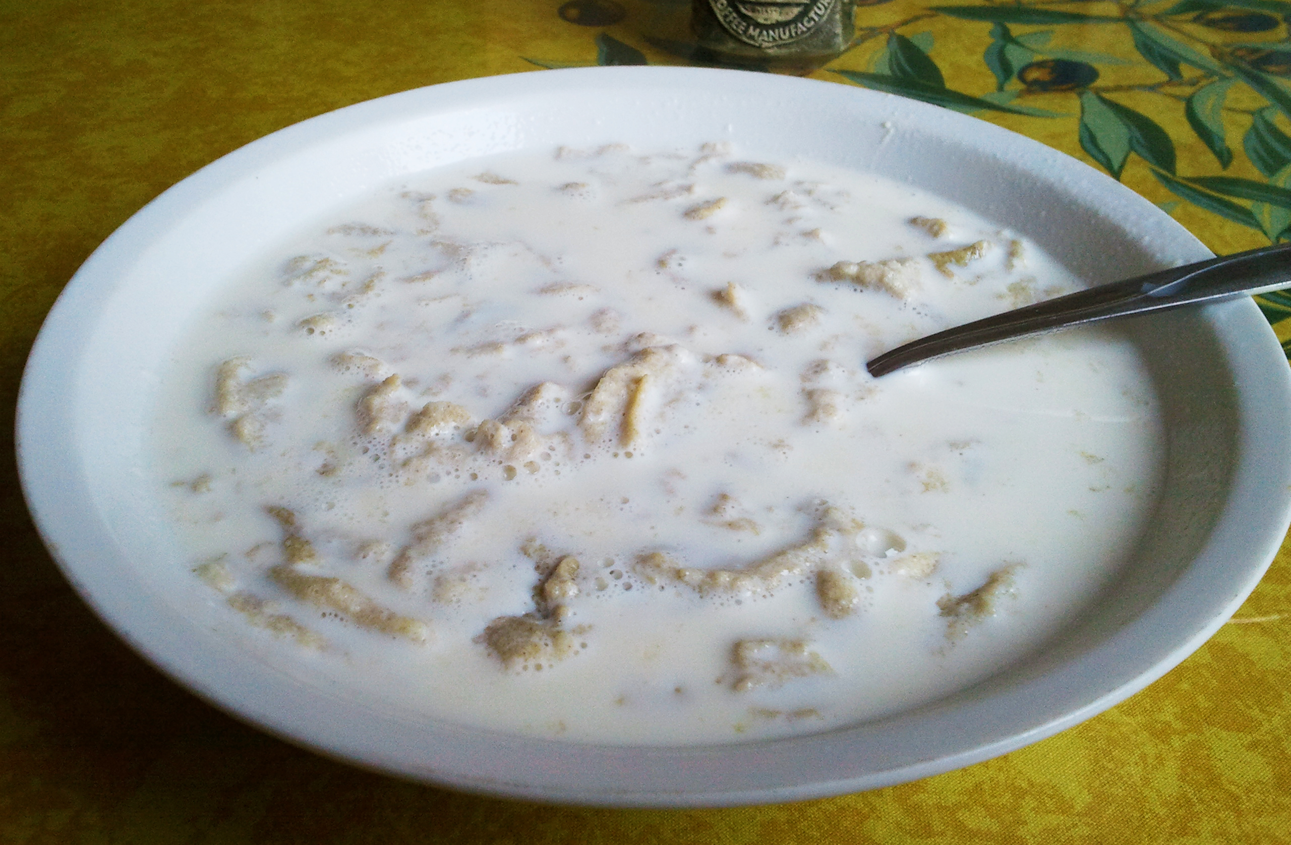 strange porridge with milk. Common type of breakfast of south and east Slavs, especially in Russia and Ukraine.